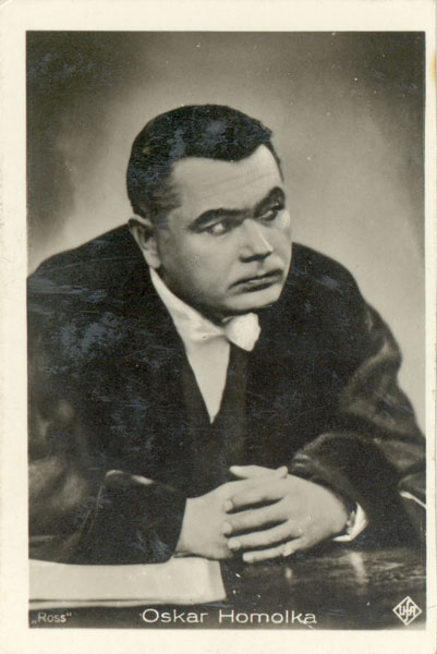 Oskar Homolka (1898-1978), Austrian-American actor